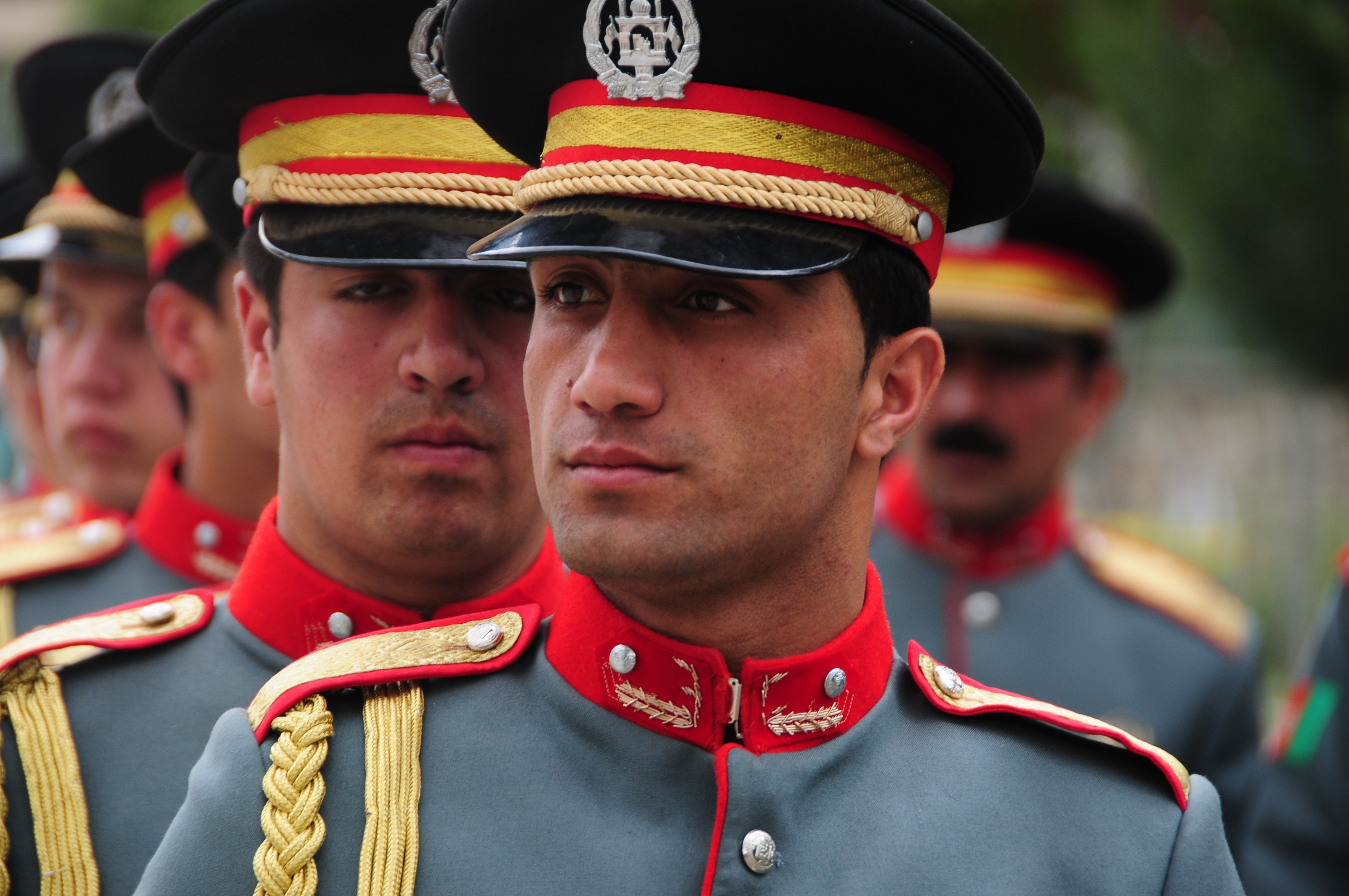 Kabul - An Afghan National Civil Order Police (ANCOP) honor guard stands in formation while attending an ANCOP Officer Candidates School (OCS) graduation May 6, 2010 at the Ministry of Interior. The French Gendarmerie trained ANCOP officers are the first graduating class of ANCOP OCS. (U.S. Air Force photo by Staff Sgt. Sarah Brown)